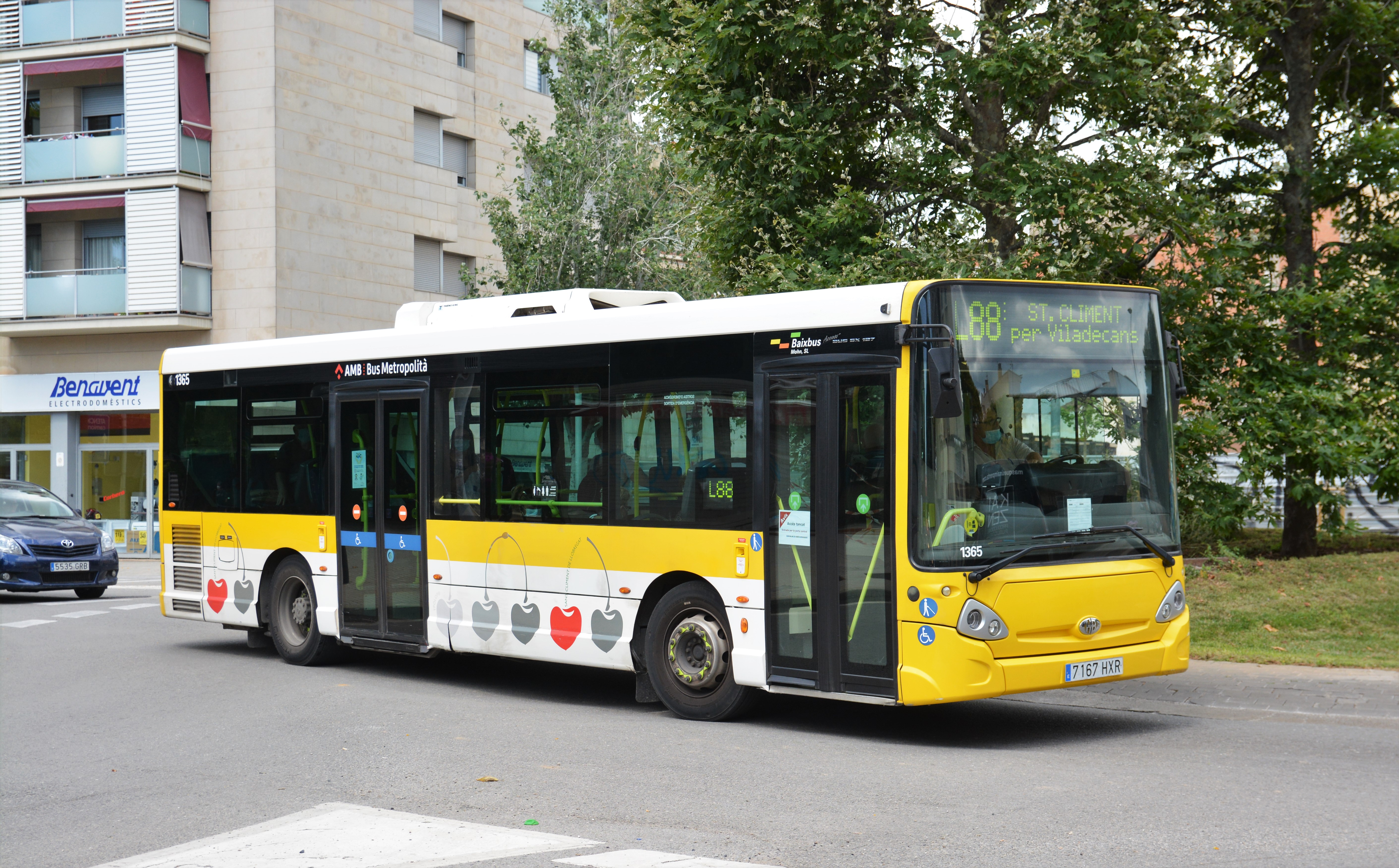 Bus 1365 of Mohn S.L. in Viladecans. It is decorated with the specific colors of the L88 line, which goes to Sant Climent de Llobregat.